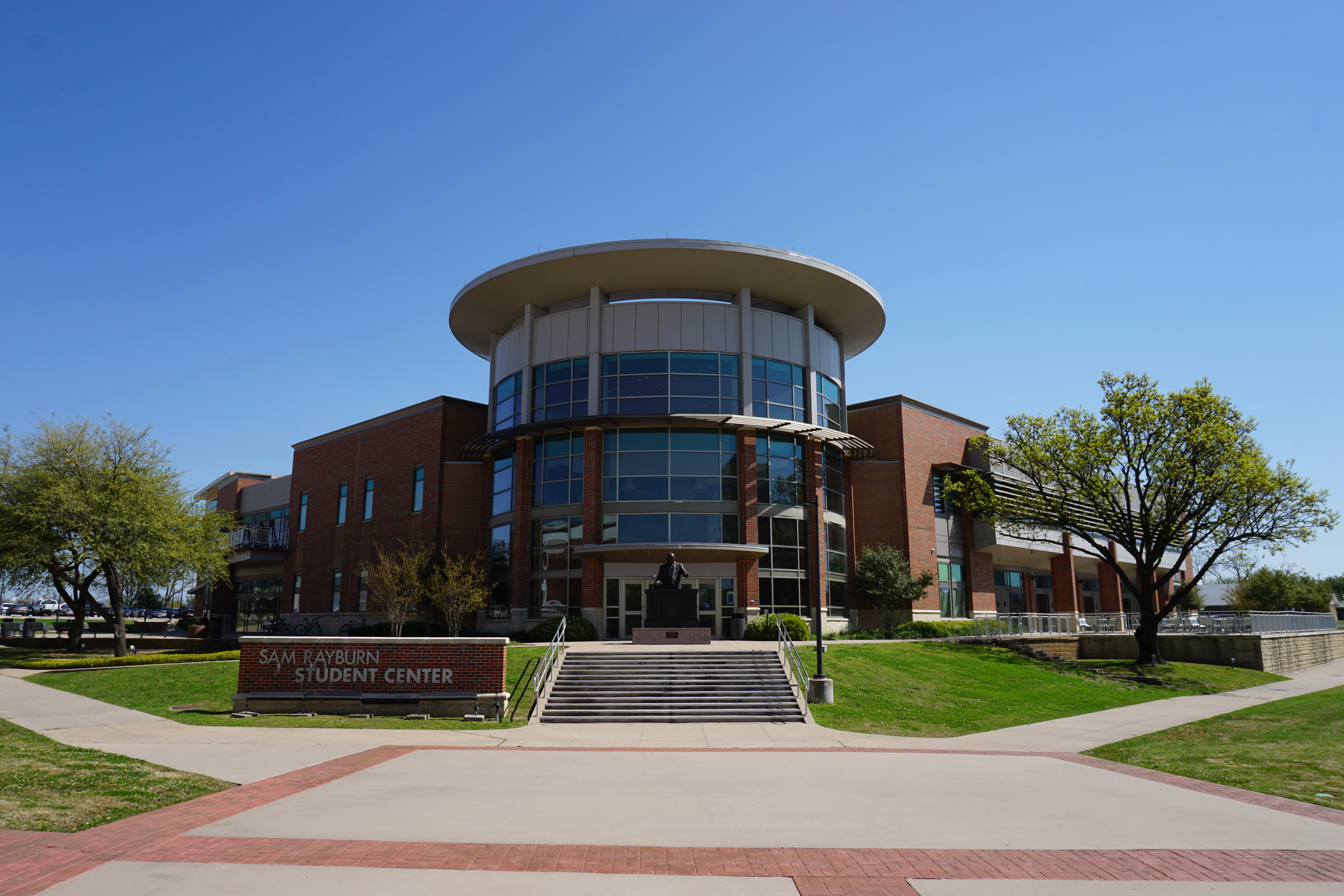 The Rayburn Student Center on the campus of Texas A&M University–Commerce in Commerce, Texas (United States).